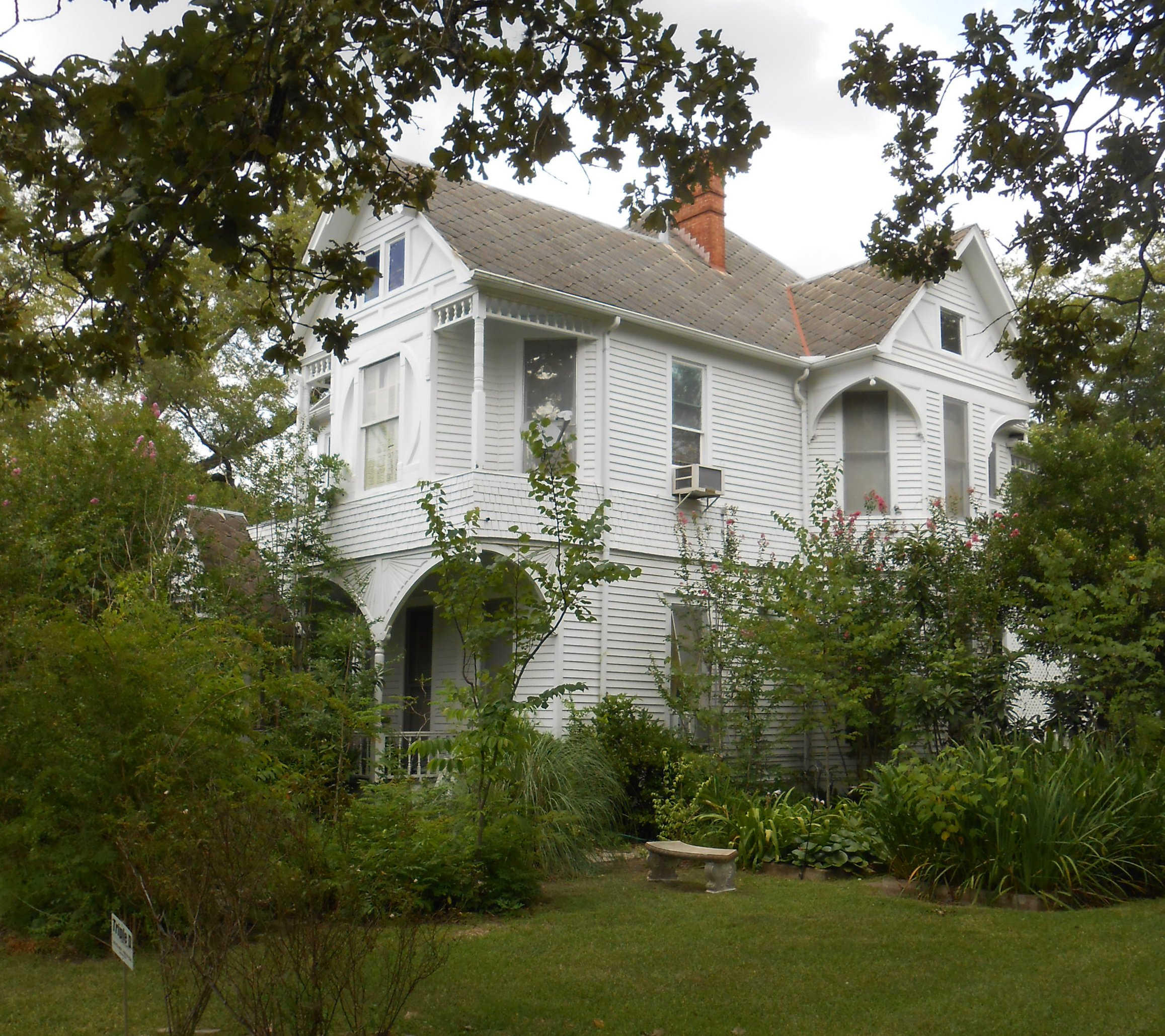 Little House, 502 N. Victoria Street, Victoria, Texas